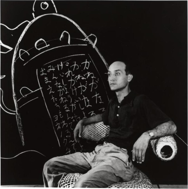 Isamu Noguchi (1904–88)